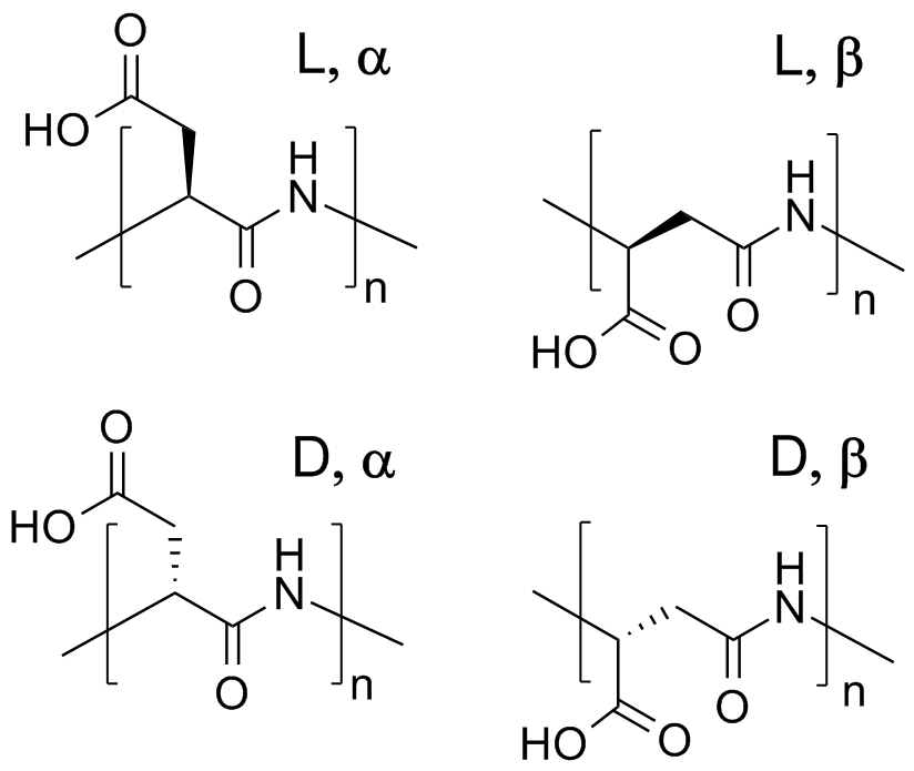 Possible isomers of repeating unit in polyaspartic acid (PASA)